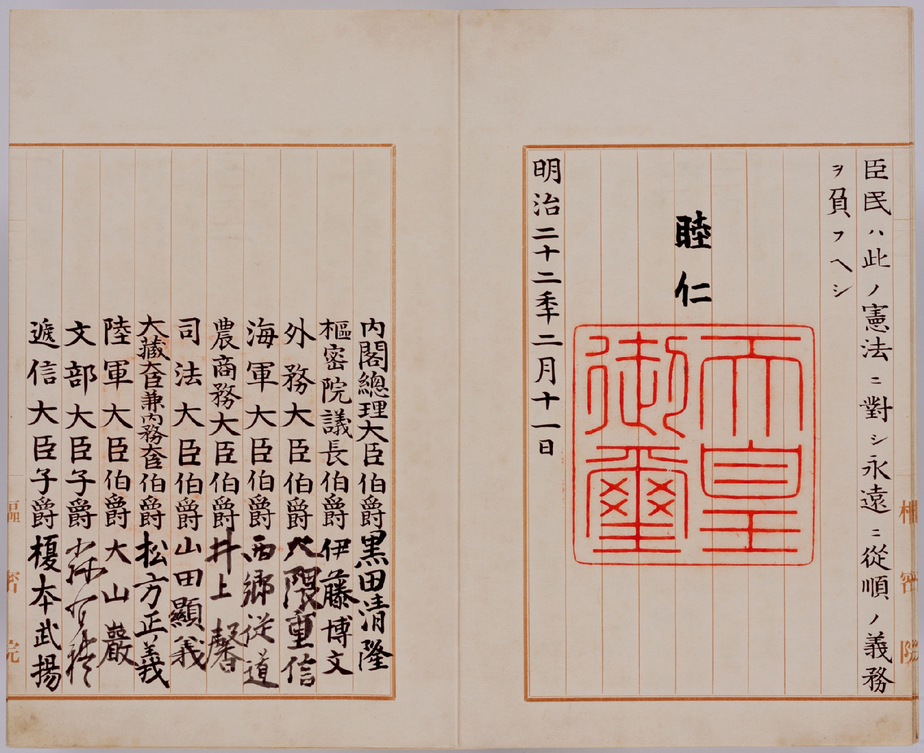 Meiji Constitution (page 3)